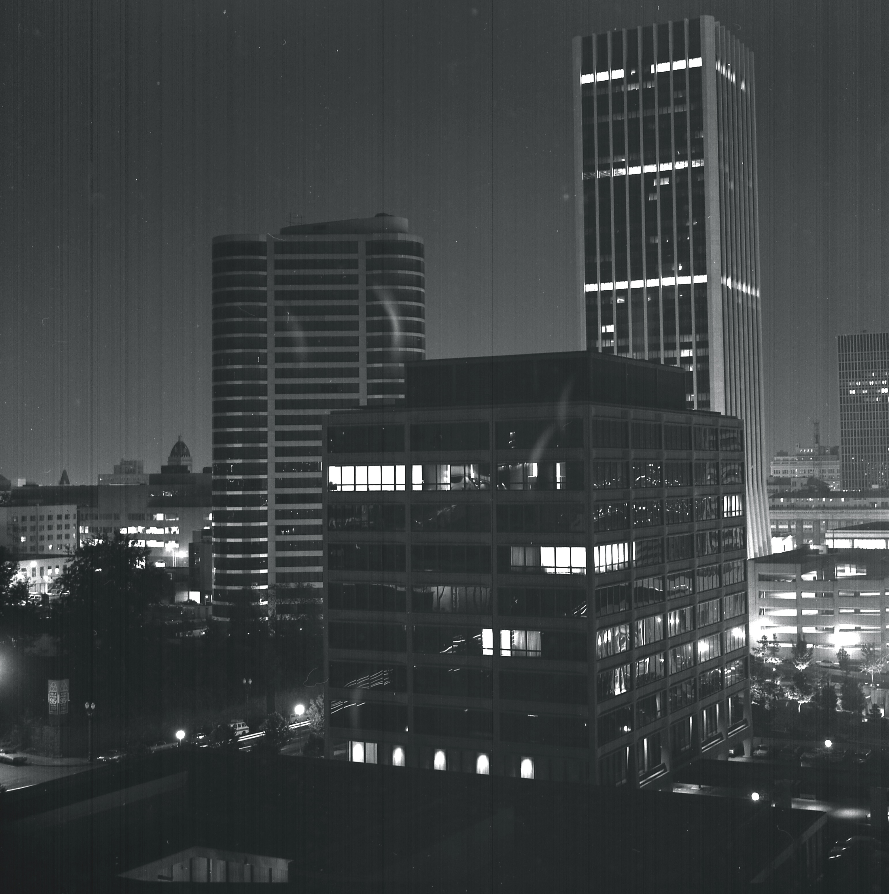 Black and White photograph of downtown Portland. Taken in downtown Portland in 1974. Portland Plaza, rounded structure, is left of center; First National Bank Tower (now Wells Fargo Center) is right of center (tallest building in photograph); Standard Insurance Center is in distance at center-right; Market Center Building at center.